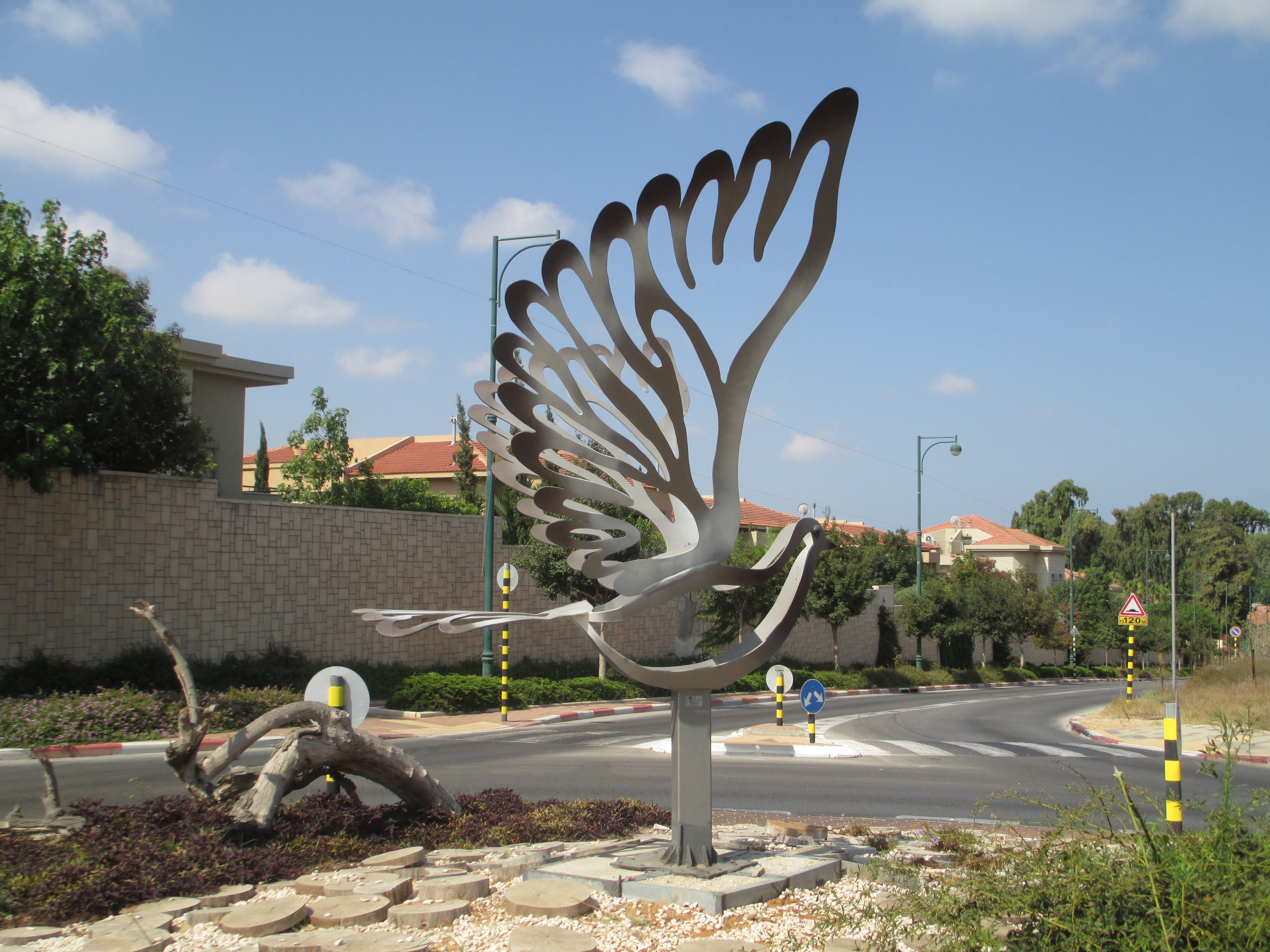 Turtledove circle in Ness Ziona